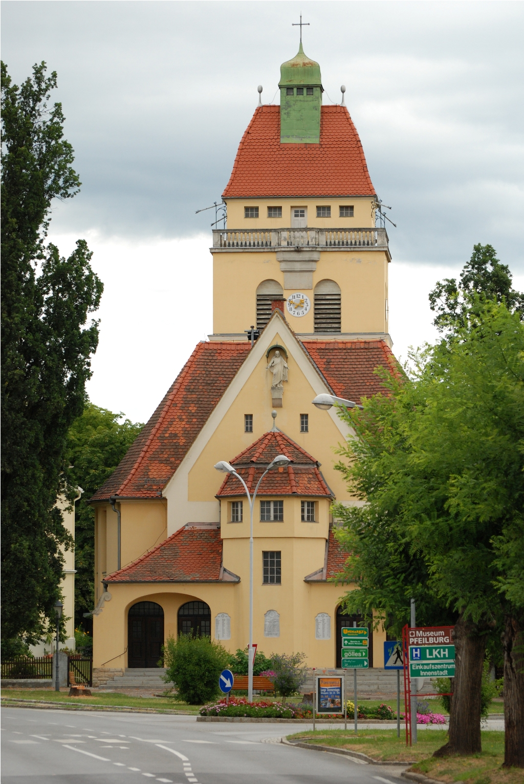 Heilandskirche Fürstenfeld